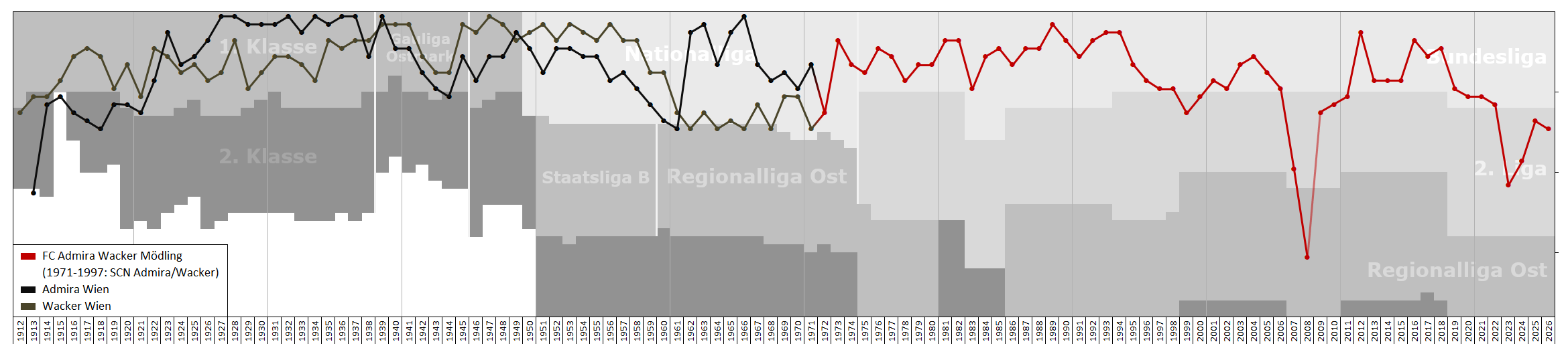 Chart of end-season table positions of FC Admira Wacker Mödling and its predecessors in the Austrian football league system. Data source: RSSSF, , regiowiki.at, wfv.at, wikipedia